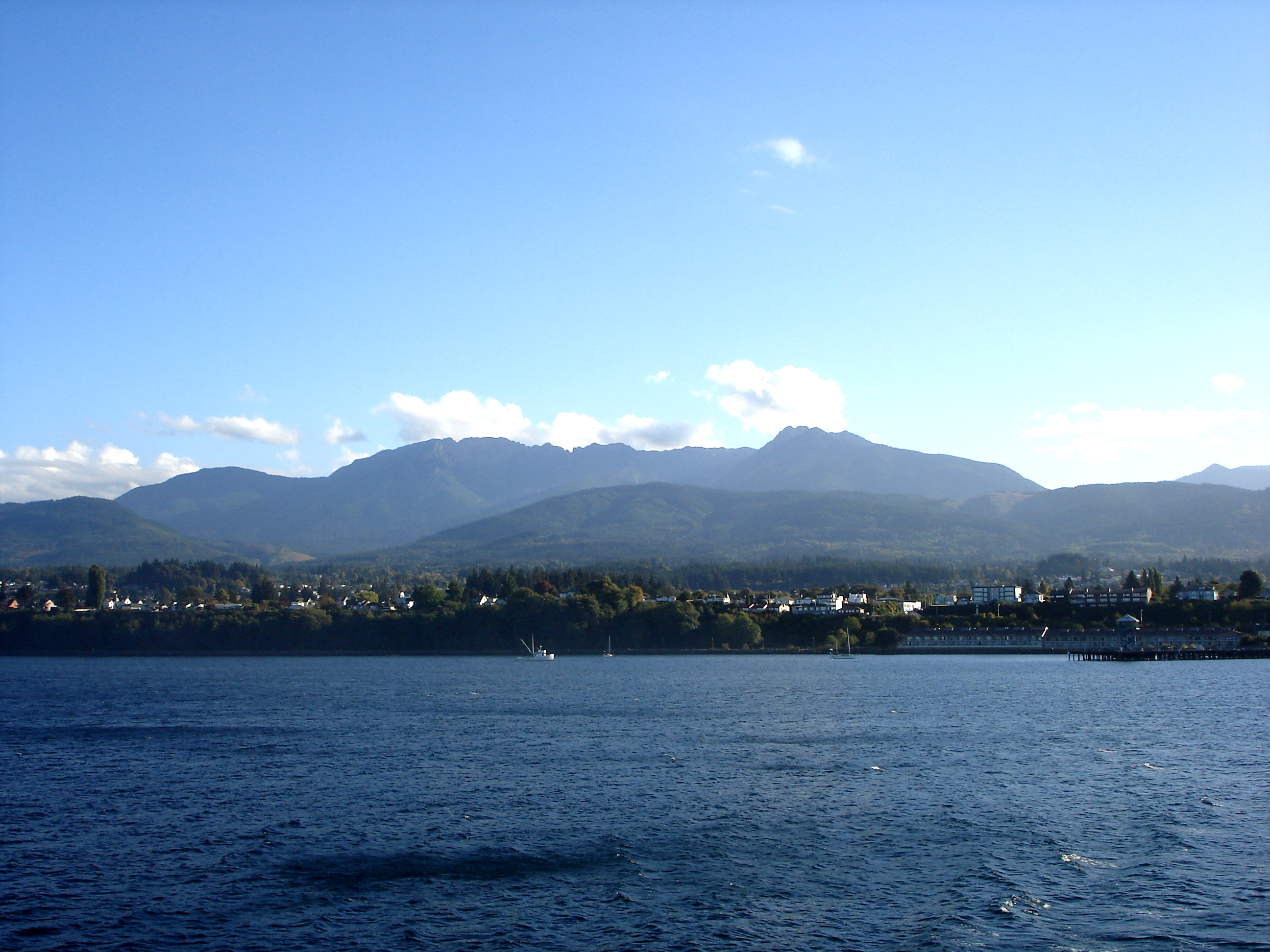 Strait of Juan de Fuca with the Olympic mountains in the background, Washington, USA